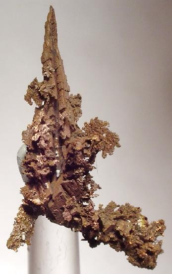 Copper Locality: Mufulira Mine, Copperbelt Province, Zambia (Locality at ) An aesthetic specimen of an elongated, spinel-twinned copper crystal spearpoint with attached, flattened copper crystals. The piece looks like a jet fighter and is from the less well-known Mufulira Mine of Zambia. This piece probably came out in the late 1960s. 3.2 x 2.1 x 1.2 cm